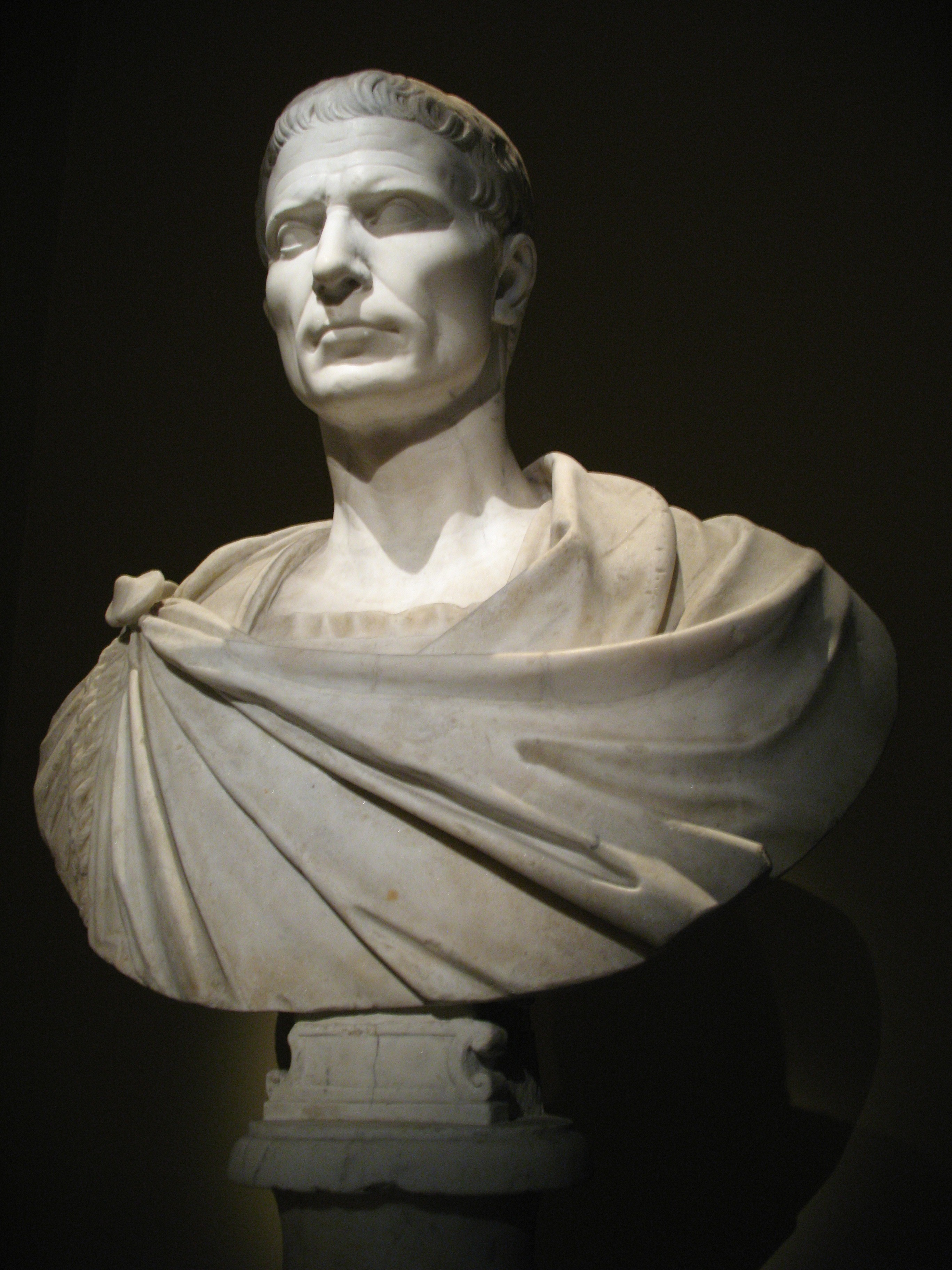 Gaius Julius Caesar, Art History Museum, Vienna, Austria